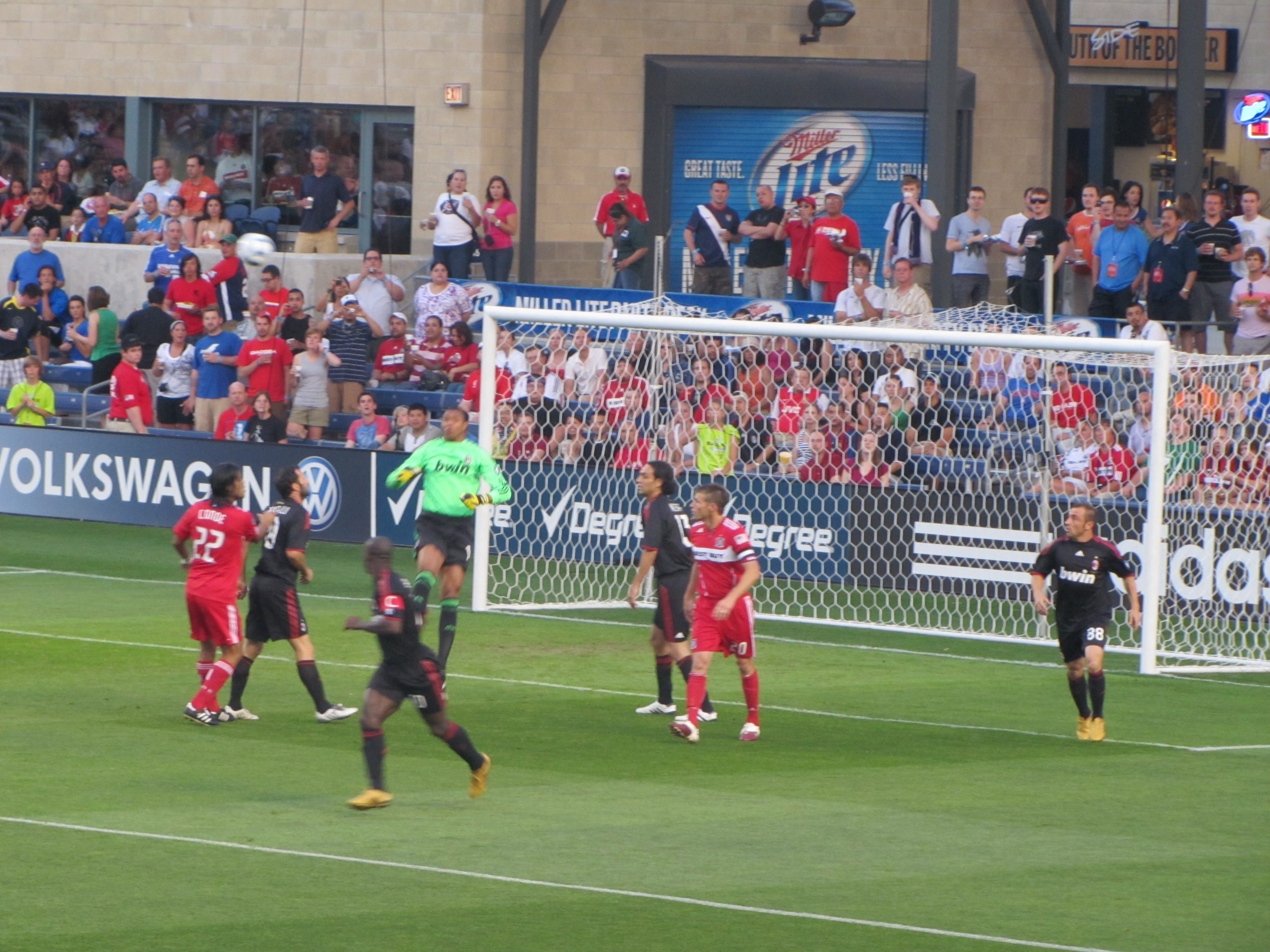 Chicago Fire vs AC Milan, 30 May 2010